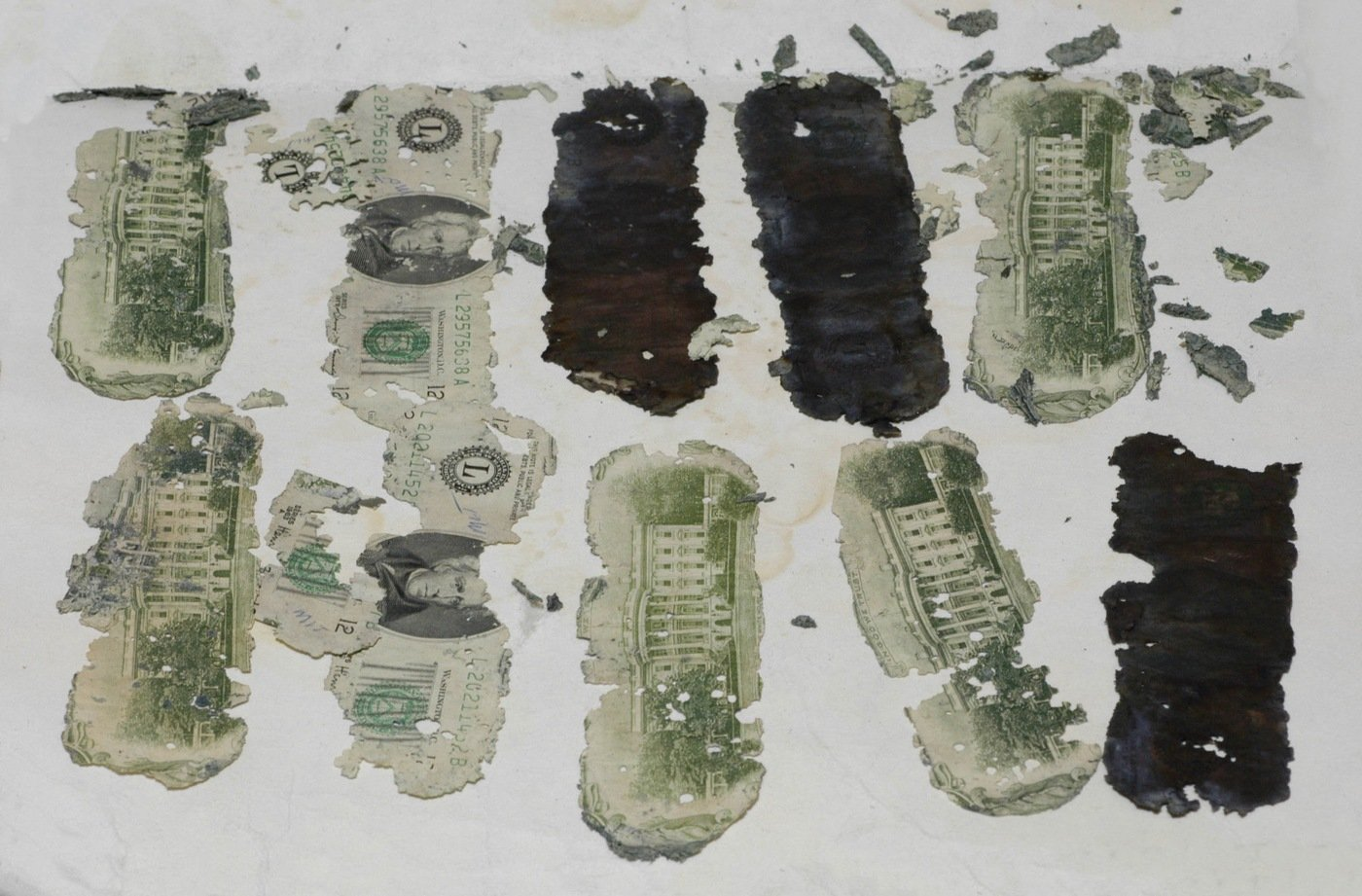 Some of the D. B. Cooper's stolen $20 bills found by a young boy in 1980.